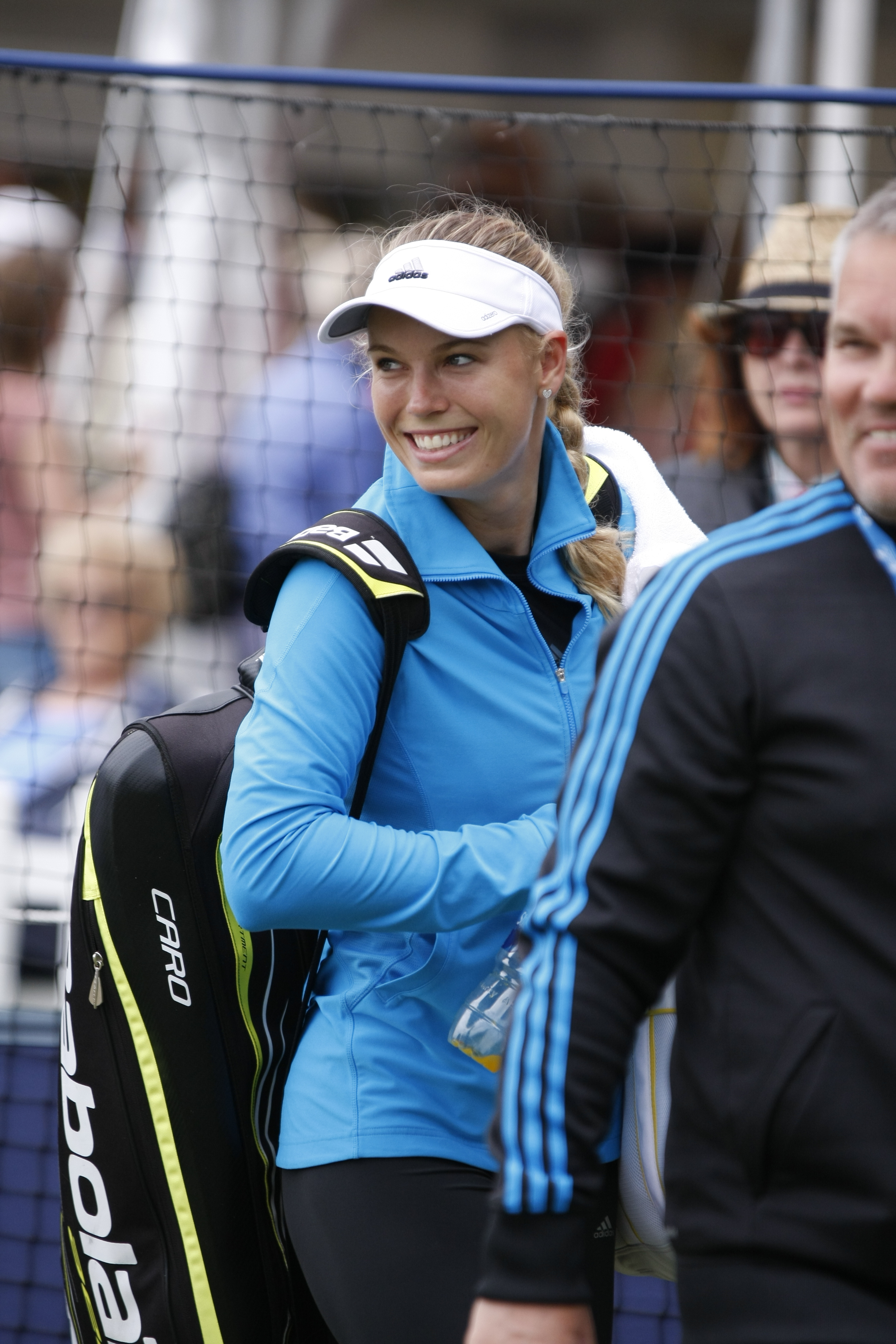 Wozniacki at the Aegon International, June 2014